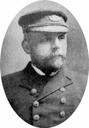 Edward J. Smith c. 1895